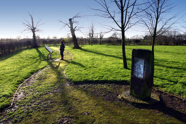 Lewis Carroll's birthplace East of Runcorn. Feb 2005.